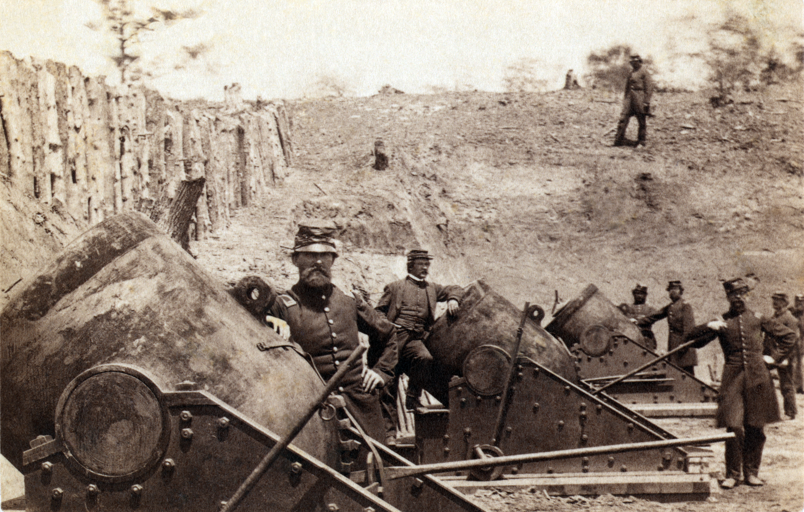 "Battery, No. 4--near Yorktown, mounting 10 13-inch mortars, each weighing 20,000 pounds. East-South end / Brady's Album Gallery." United States Civil War: artillery placements outside Yorktown, Virginia. Scanned from a photographic print on carte visite mount; original from albumen This is a retouched picture, which means that it has been digitally altered from its original version. Modifications: Rotated and cropped, artifacts and stains removed. Histogram adjusted and color balanced.. The original can be viewed here: Yorktown artillery.jpg: .